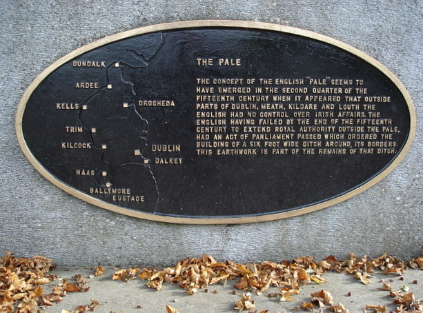 End of the Pale, Ballymore Eustace, Co Kildare. This plaque is on the wall below the water tower and marks part of the remains of the ditch.